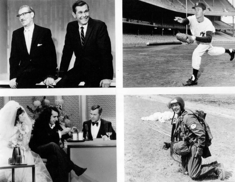 Photos of memorable moments during the history of The Tonight Show as Johnny Carson celebrated his 13th year as its host. Top left: Carson's first Tonight Show with guest Groucho Marx, 1962. Top right: Carson pitches at the Yankee Stadium, 1962. Bottom left: the wedding of Tiny Tim on Carson's show, 1969. Bottom right: Carson in a skydiving demonstration, 1968.